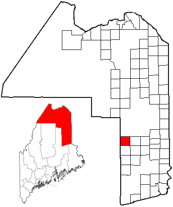 Adapted from U.S. Census Bureau maps (American FactFinder) and Wikipedia's ME county maps by Bumm13.